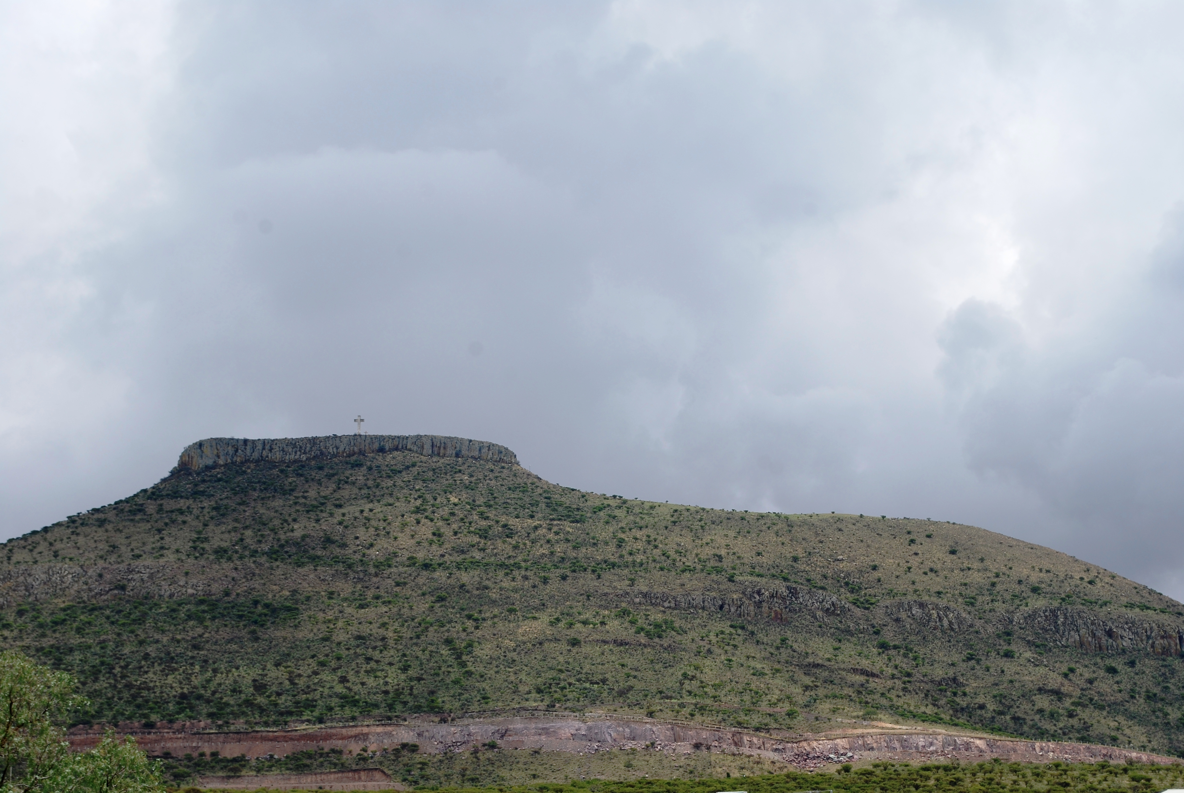 Sombrerete Mountain in Zacatecas